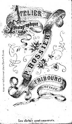 The mark of Pierre Rossier's photographic studio, 1860s, Fribourg, Switzerland